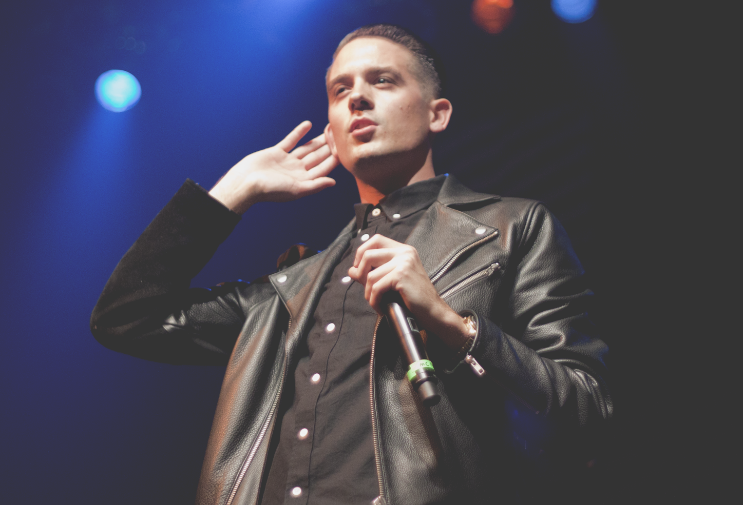 G-Eazy performing at Roseland Ballroom in 2014